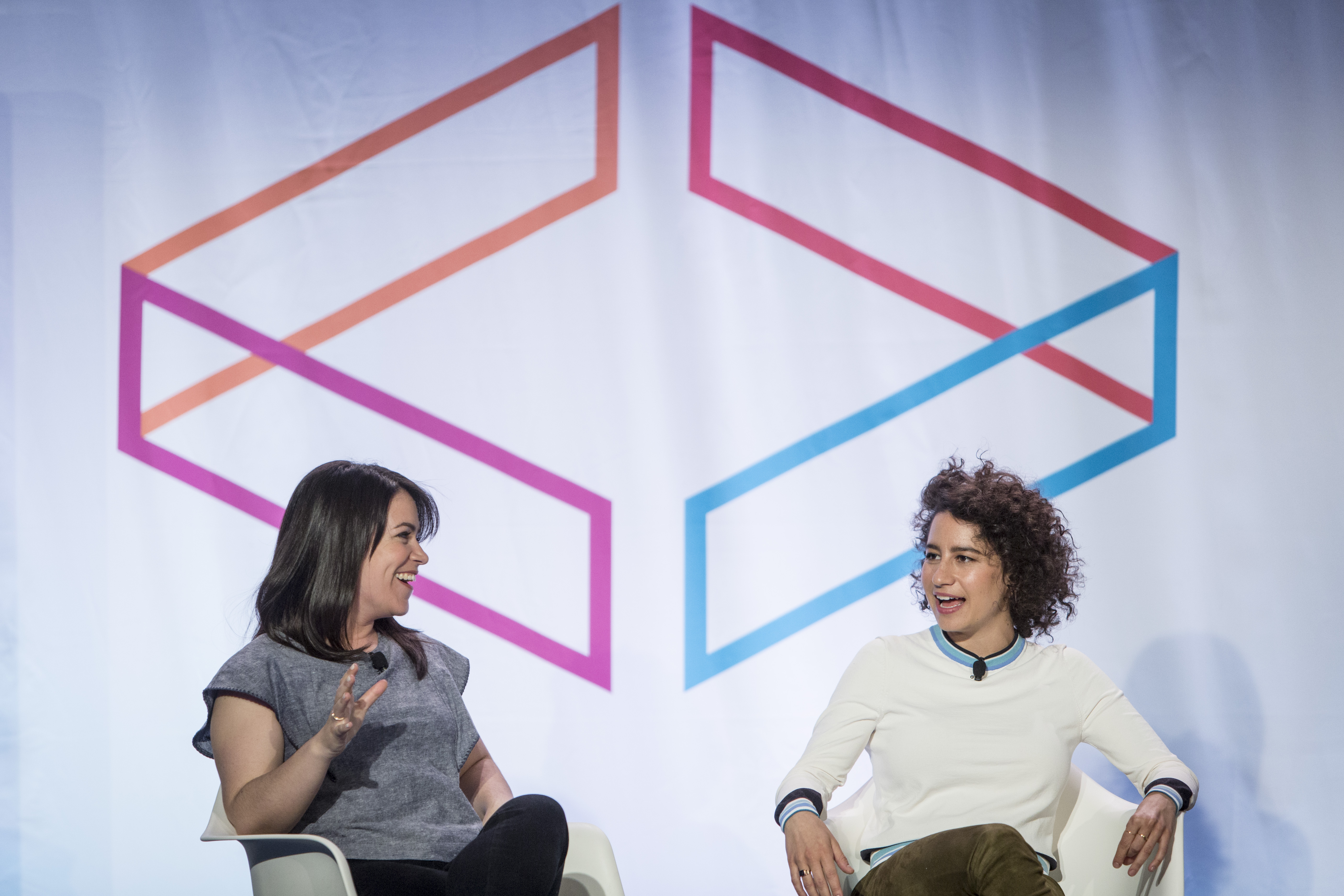 Marie Claire Editor in Chief Anne Fulenwider interviews Broad City's Abbi Jacobson and Ilana Glazer on the YP Stage on Day 1 of Internet Week New York May 18, 2015. INSIDER IMAGES/Gary He